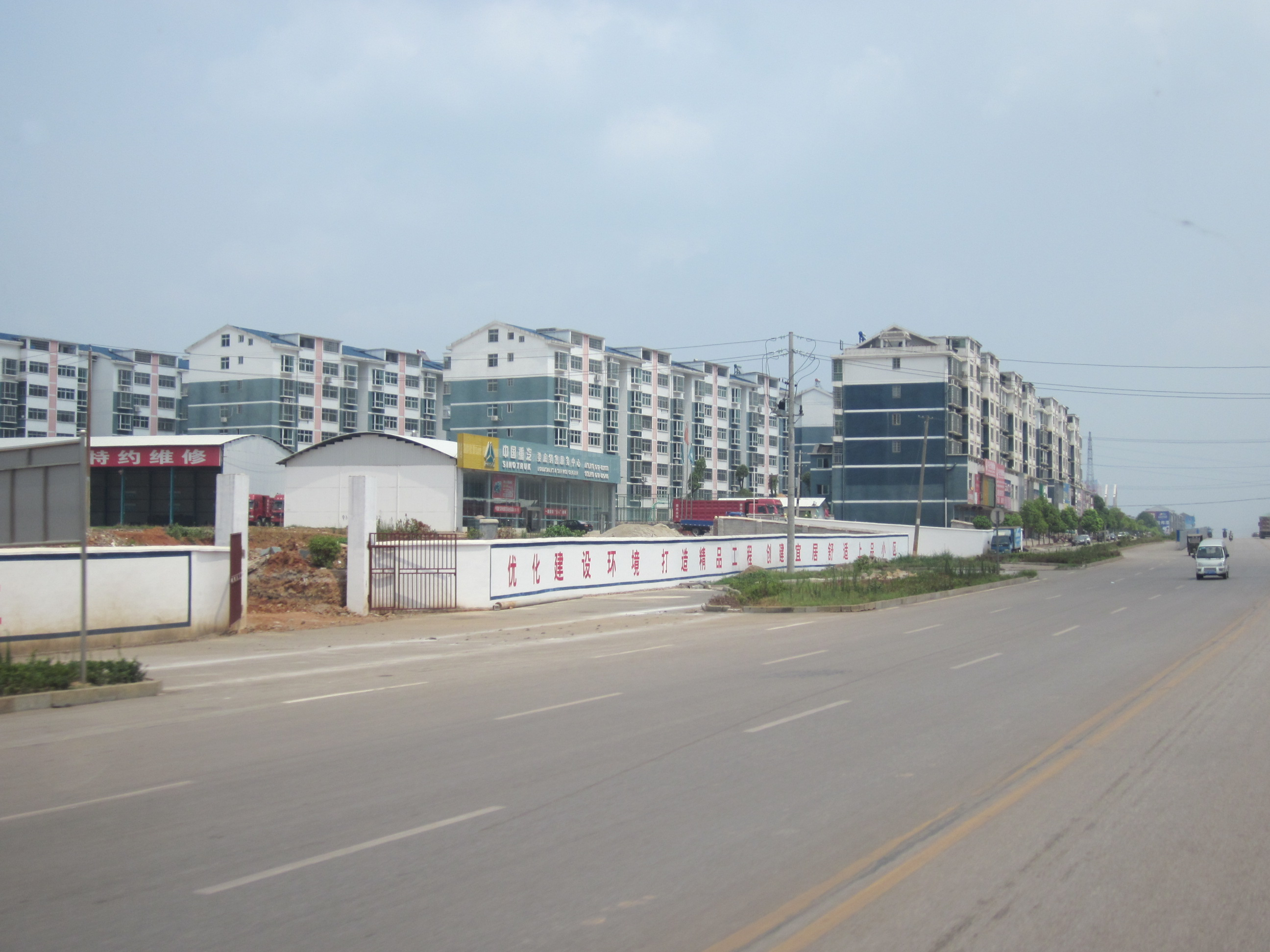 Xiaoxiang Vocational College, located in Loudi City, Hunan Province.